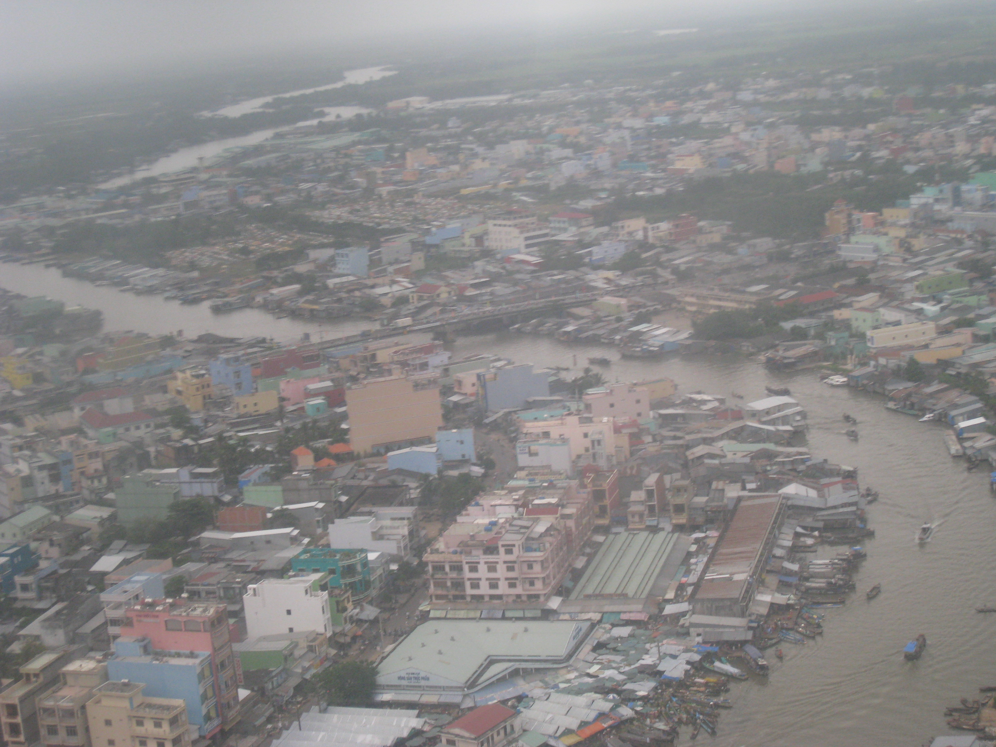 Aerial view of Ca Mau city central